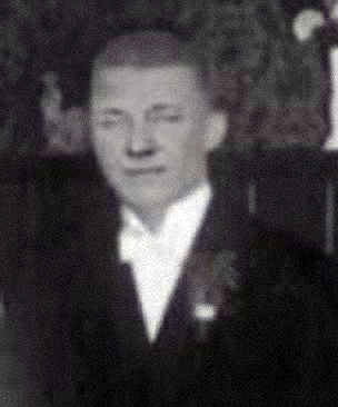 Anthony III, King of Araucania and PatagoniaEsperanto: Antonio la 3a, Reĝo de la Araŭkanio kaj la Patagonio